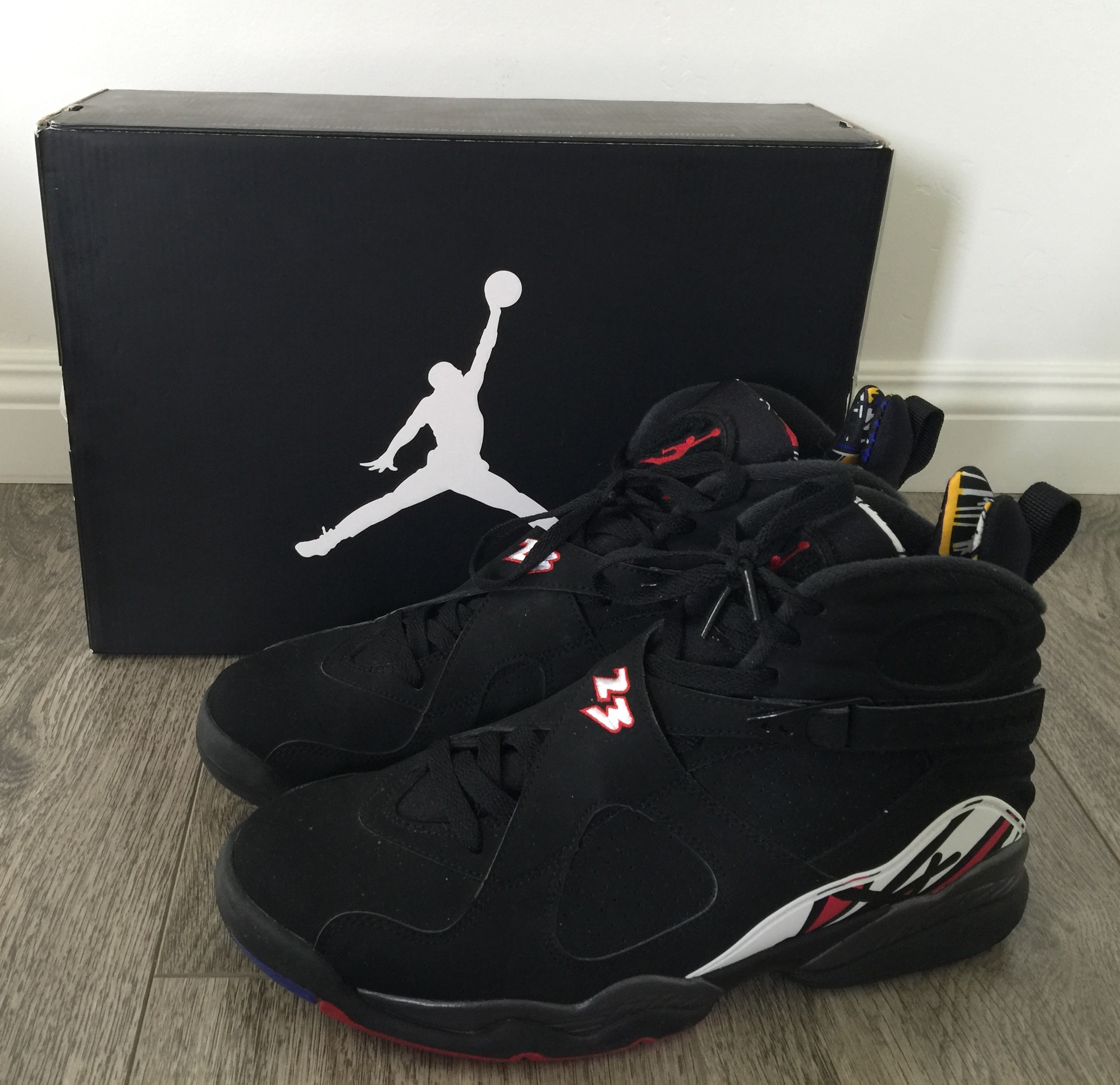 Air Jordan VIII, (Playoffs Colorway)